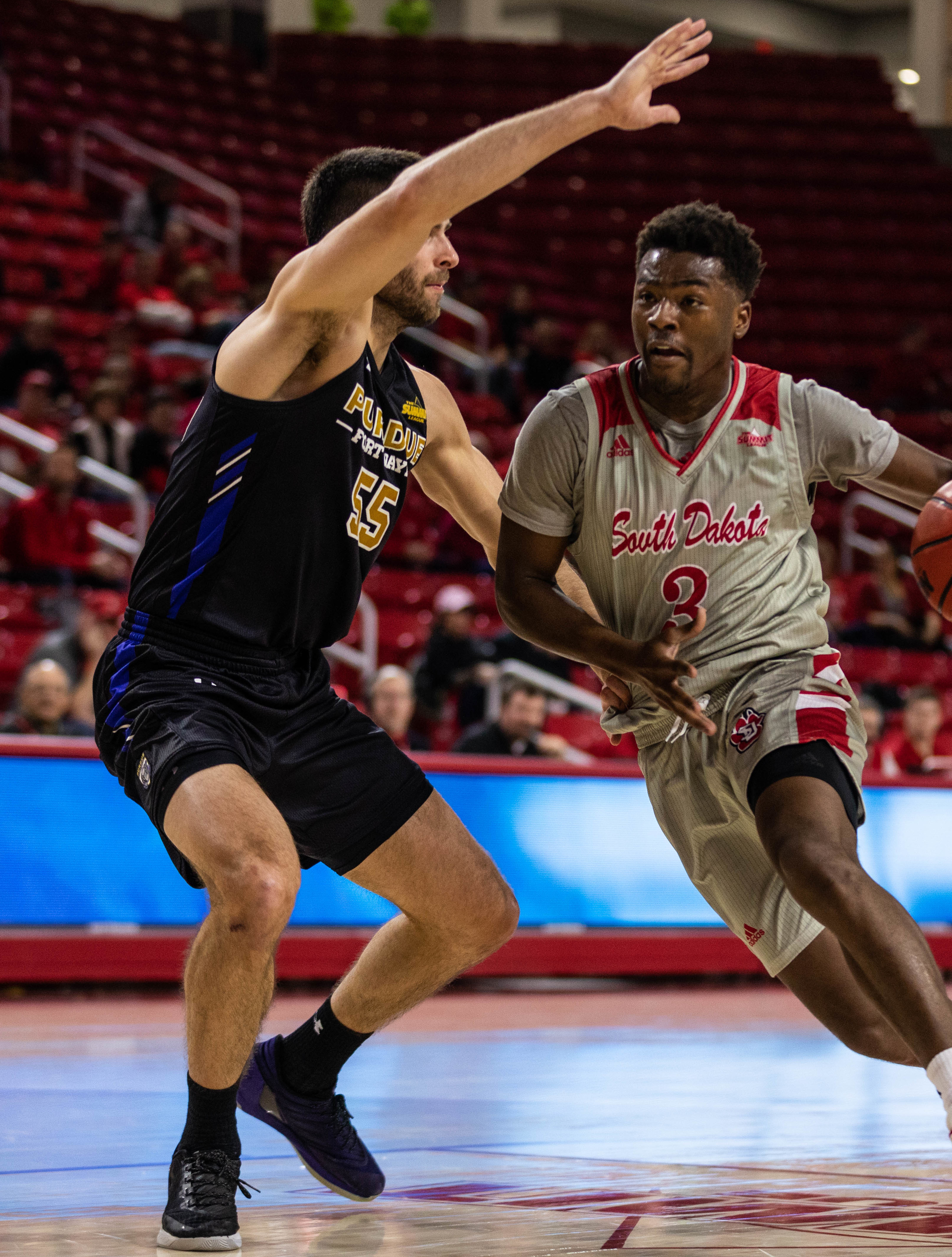 Konchar of IPFW